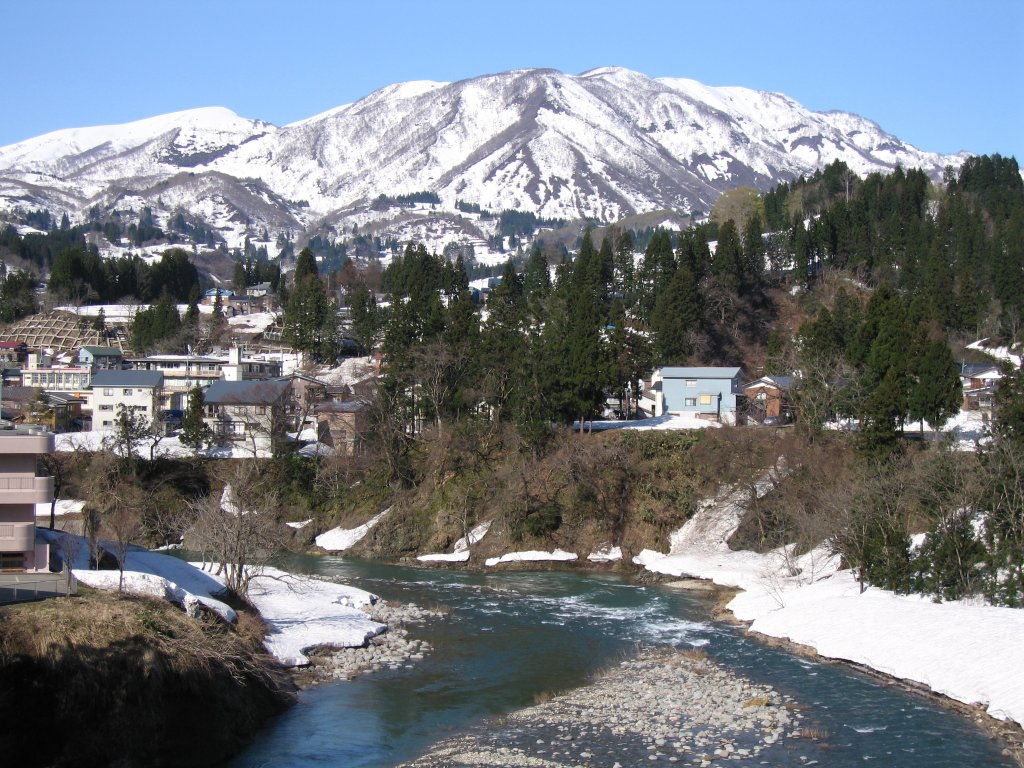 Mount Sumon as seen from the southwest in Niigata Prefecture, Japan.